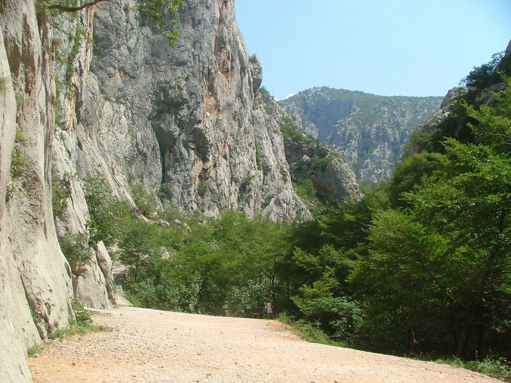 Valley in the Natural Park of Starigrad Paklenica, Croatia